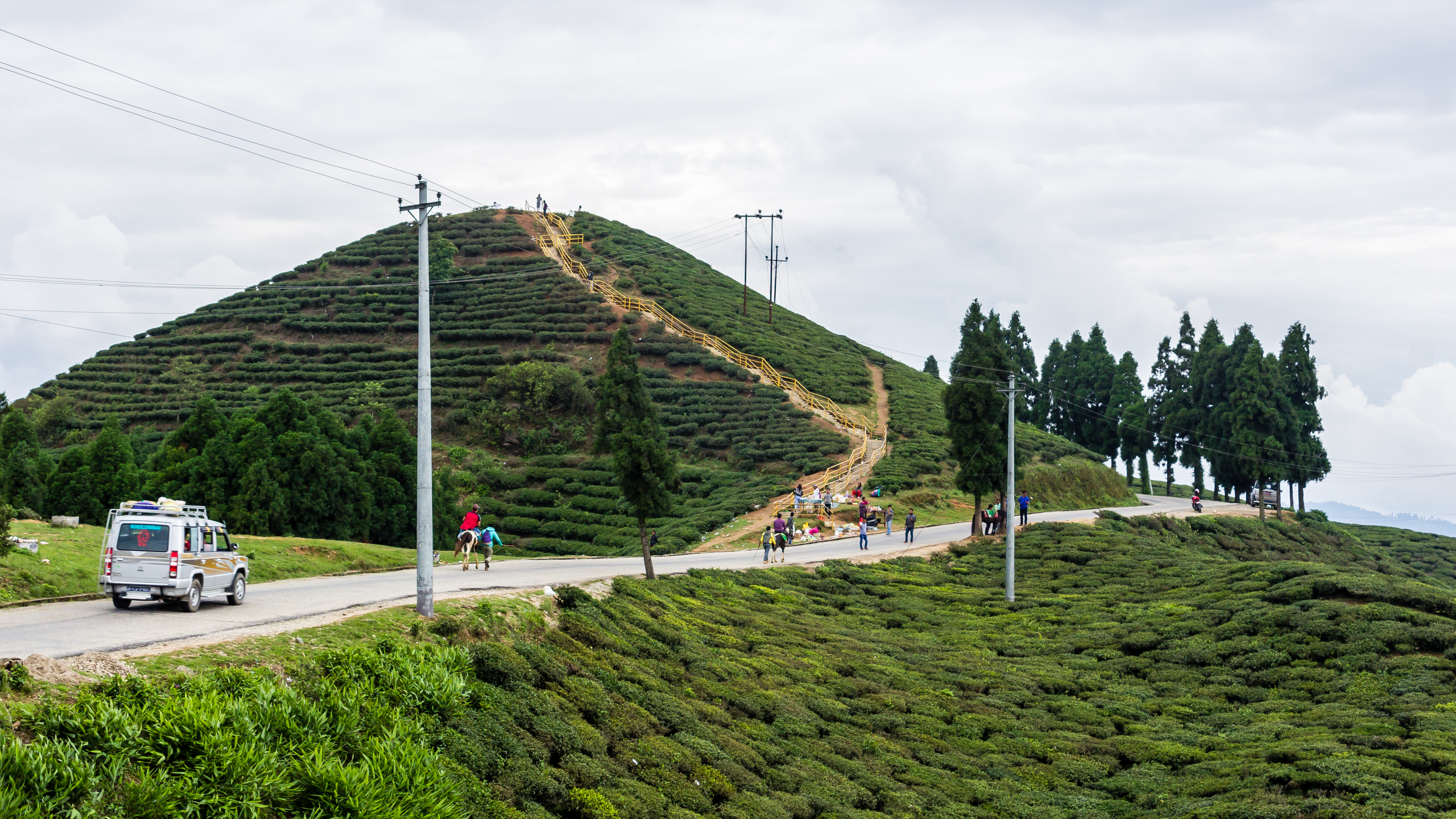 Kanyam is a town and a tourist destination in Ilam District of Nepal. This comes under Suryodaya Municipality in Ilam District in the Mechi Zone of eastern Nepal.